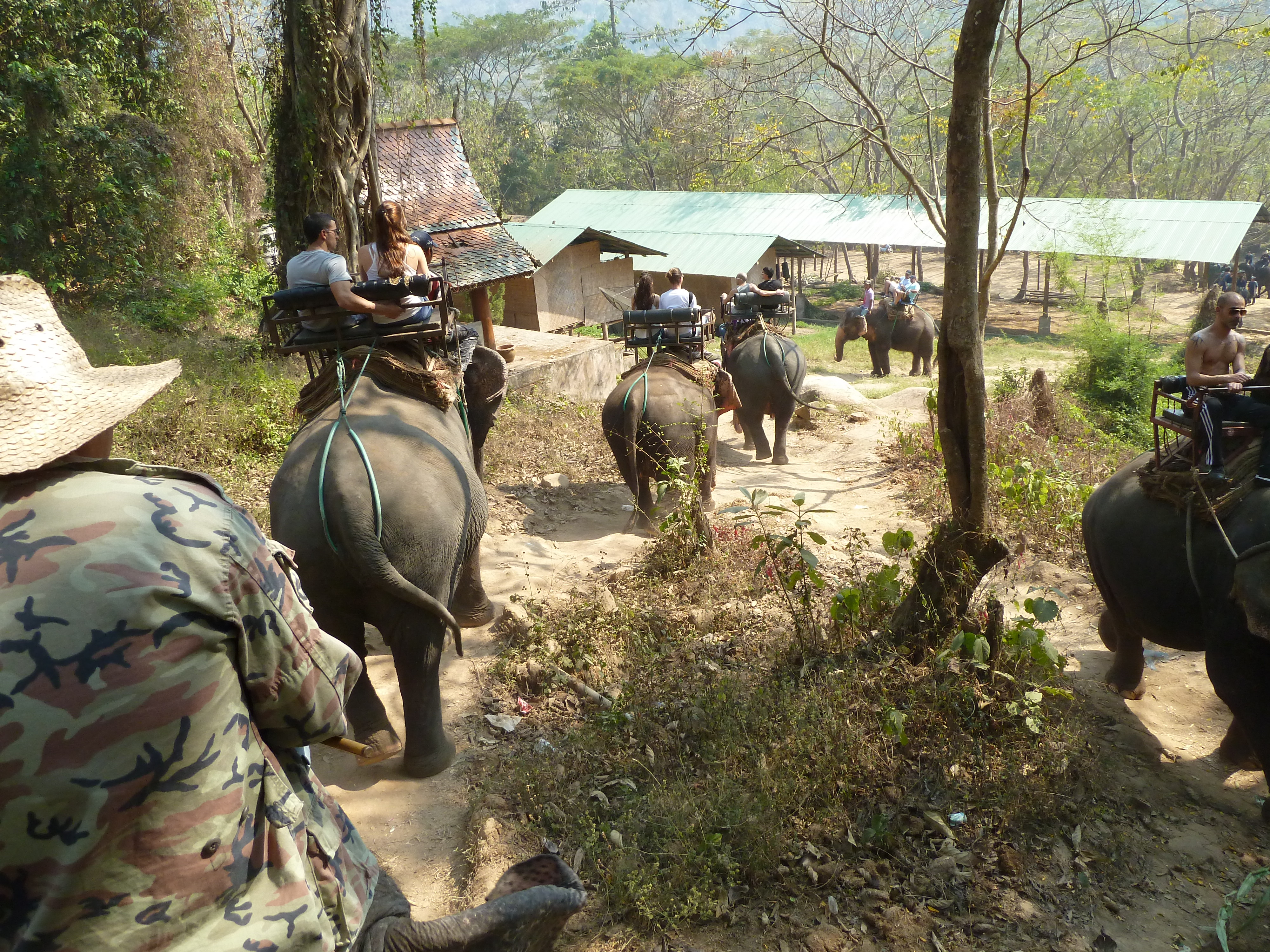 Elephant riding in Chiang Mai Province, Thailand